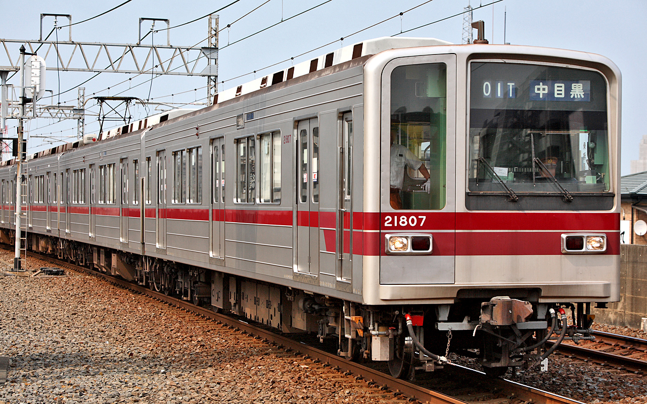 A Tobu Railway 20000 series EMU